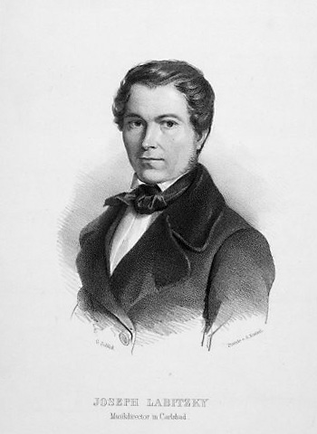 Portrait of tchech composer Joseph Labitzky